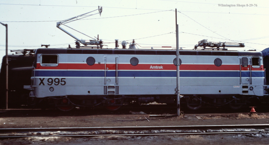 Amtrak X995 (a repainted Swedish Rc4) at Wilmington Shops during testing in 1976. The AEM-7 was based on the Rc4 design.